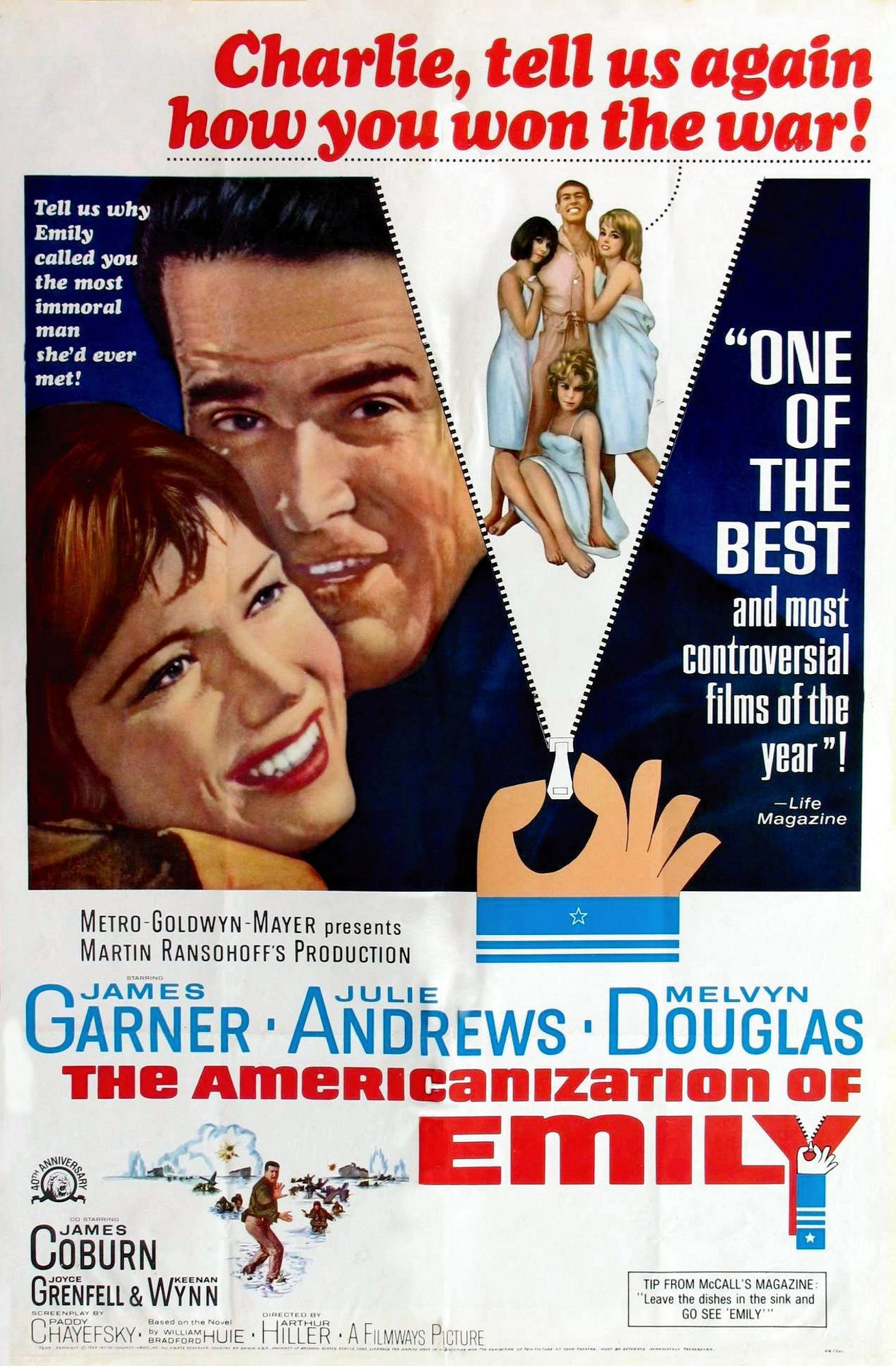 Advertising poster for the film The Americanization of Emily (1964).